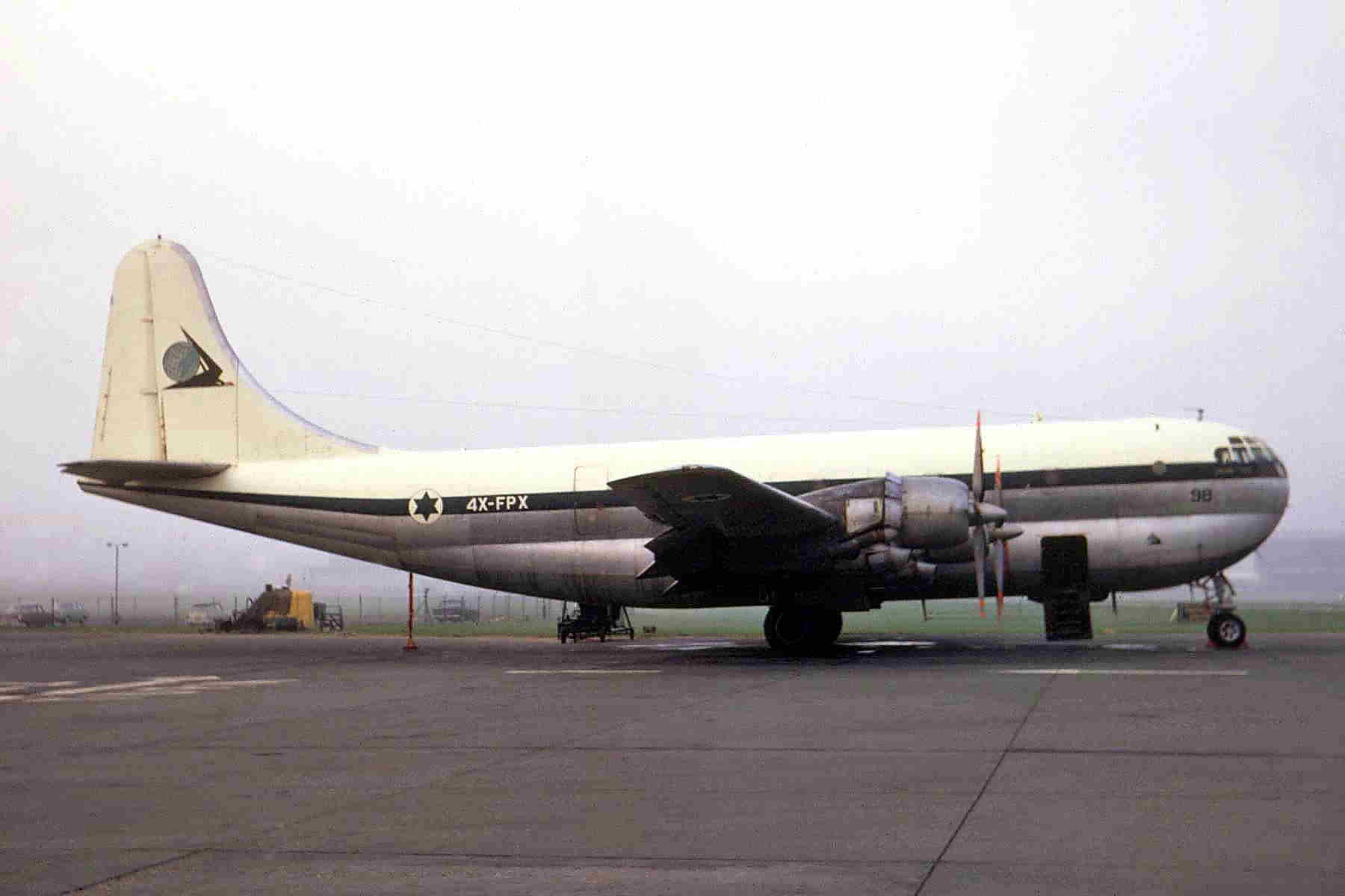 4X-FPX (098) Boeing 377M Stratocruiser of the Israeli Air Force at London Gatwick airport.